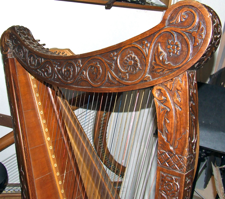 The "Telenn Gentañ", celtic harp made in 1953 by Jord Cochevelou the father of Alan Stivell. It is the first new Breton harp that marked the renewal of the instrument in Brittany.